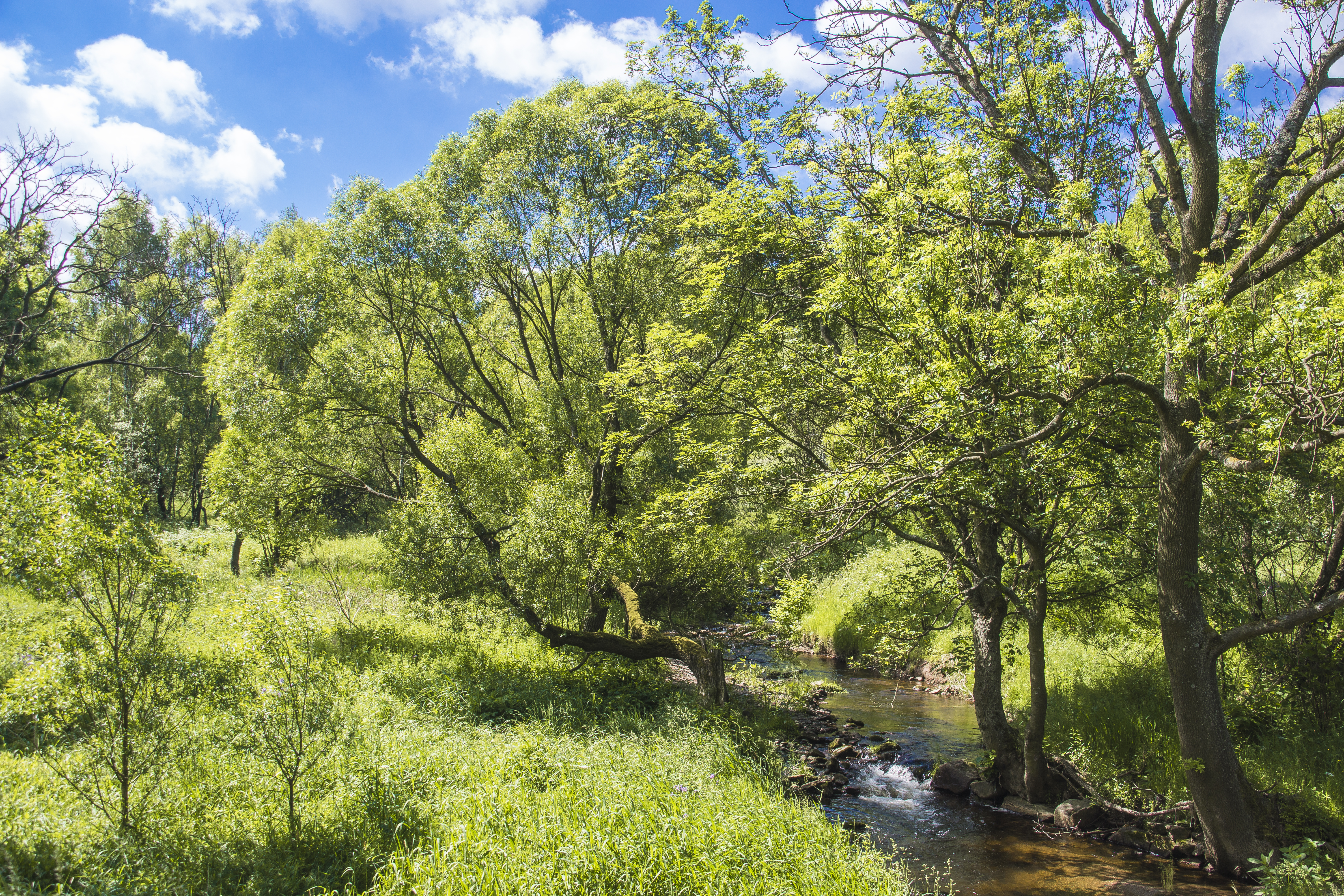 Brook "Schweinitz" the borderline D-CZ, Eastern Ore Mountains